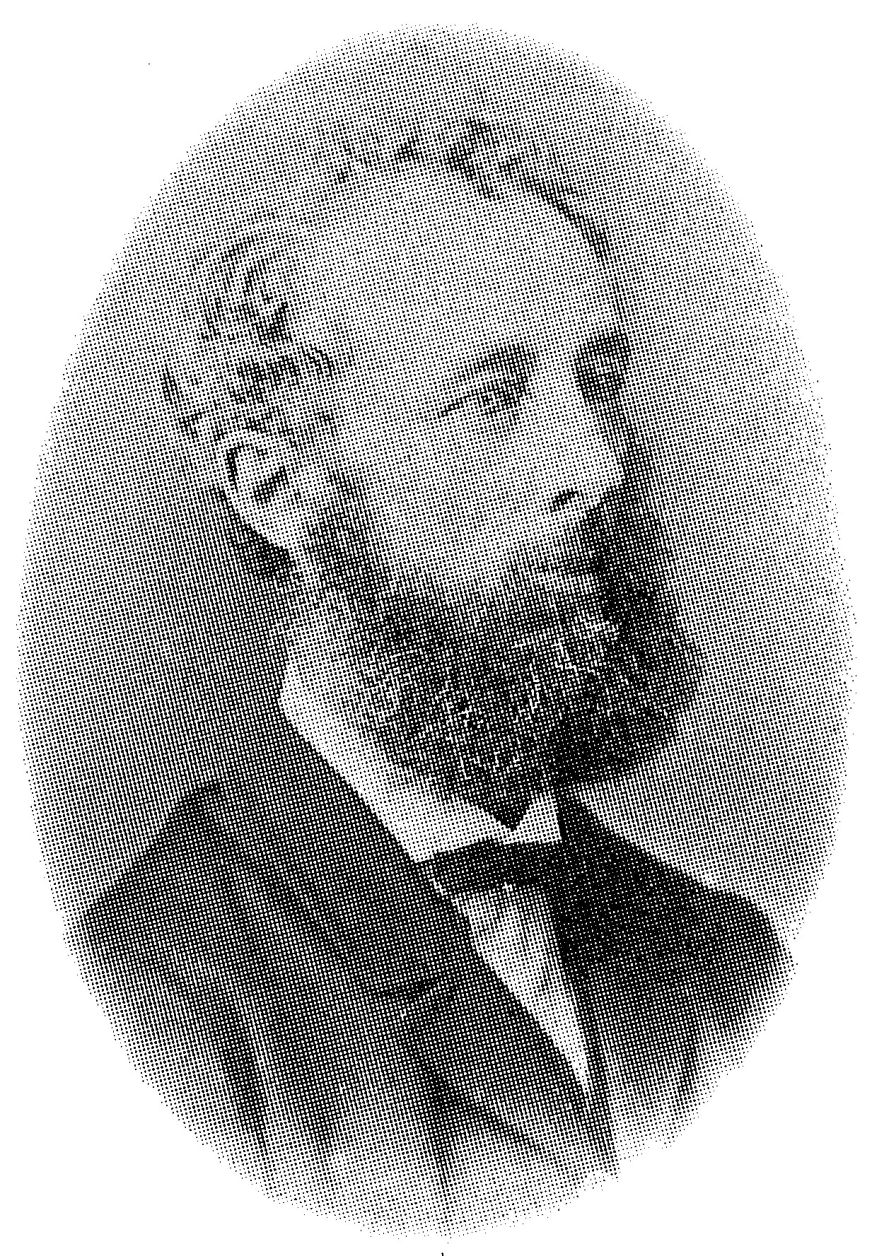 This is a photograph of George Essex Hampton (c. 1838–1876), unpopular public official in colonial Western Australia.